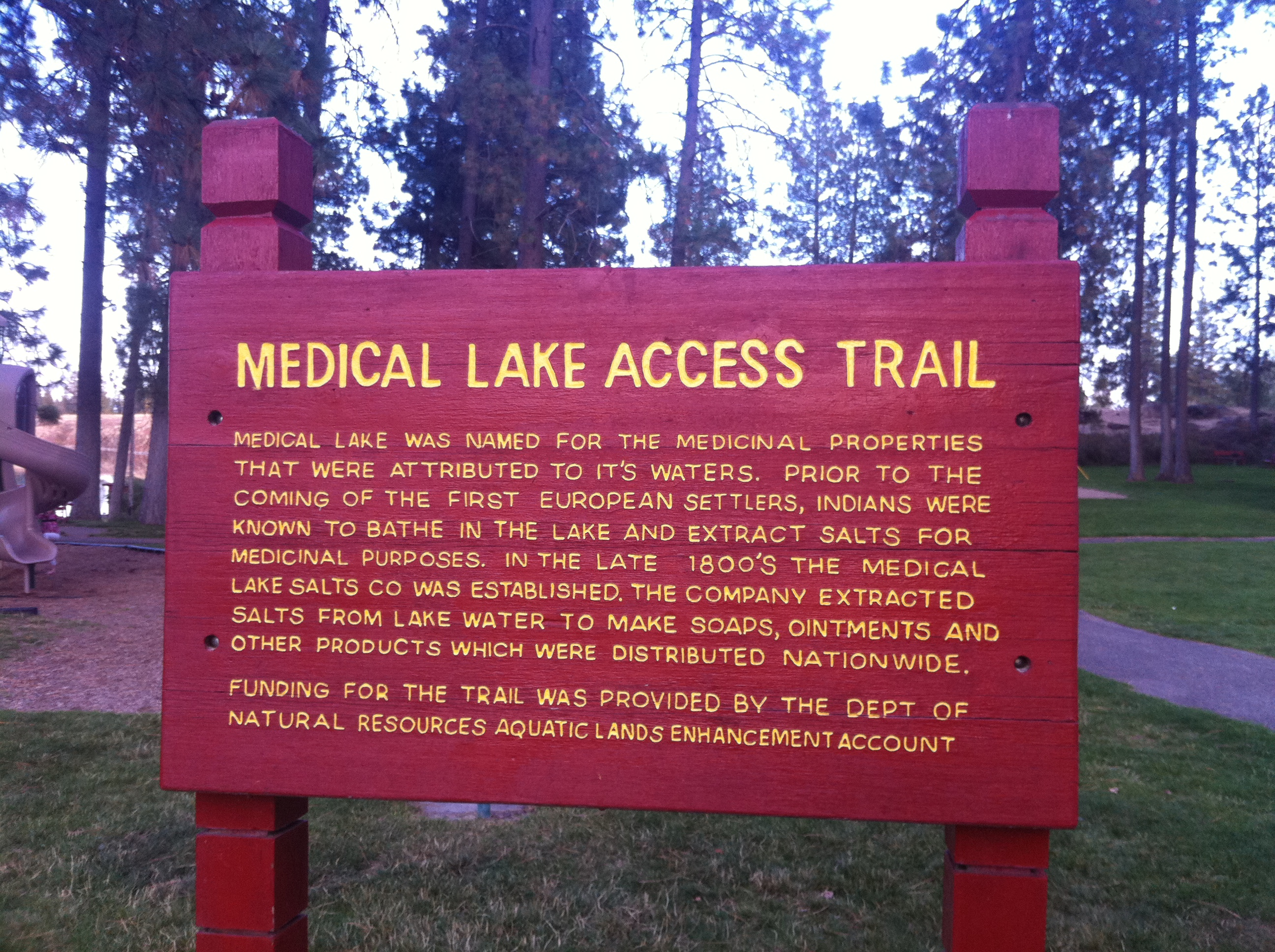 Sign at Medical Lake waterfront.